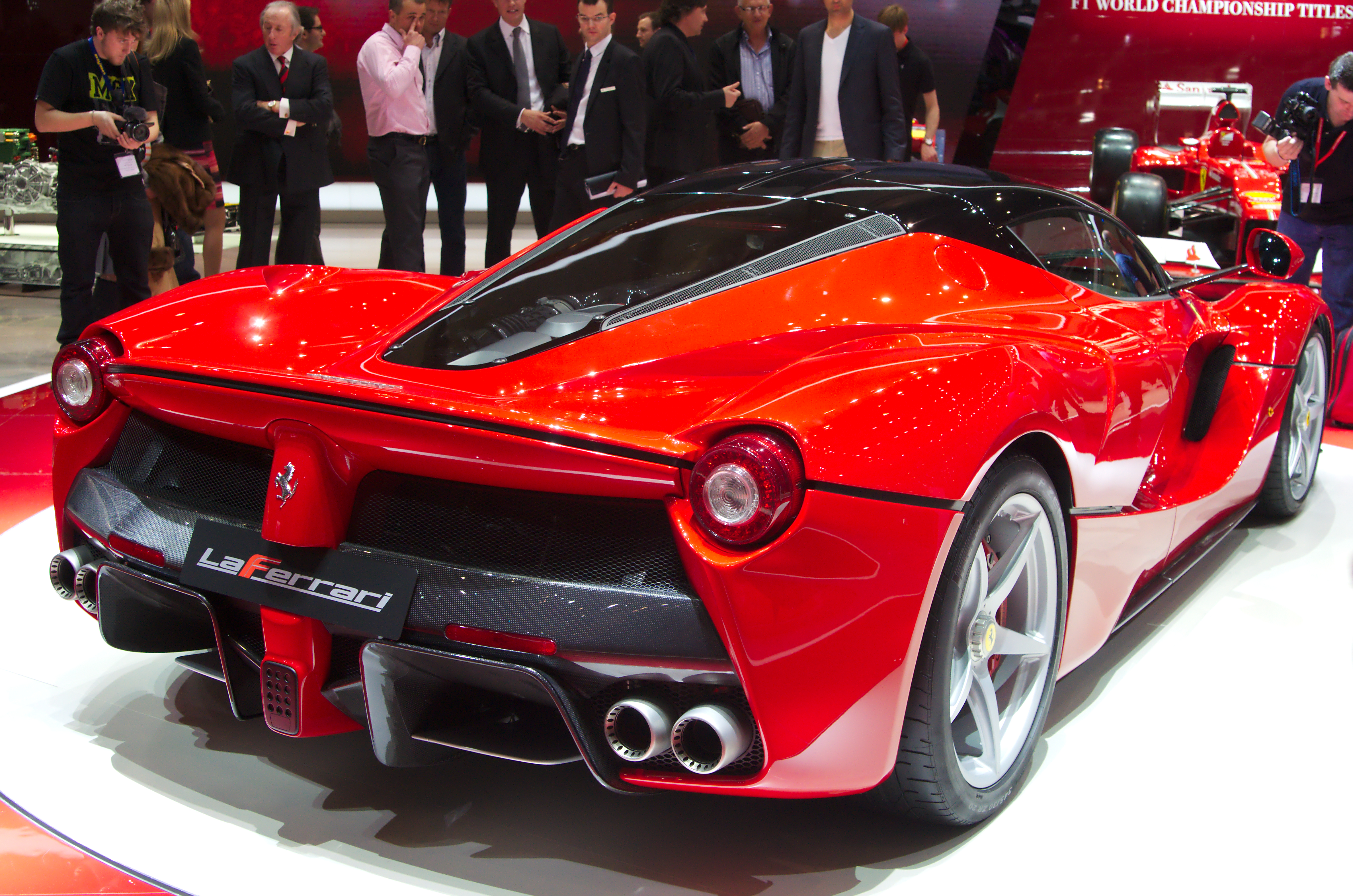 Geneva MotorShow 2013 - Ferrari LaFerrari rear left view